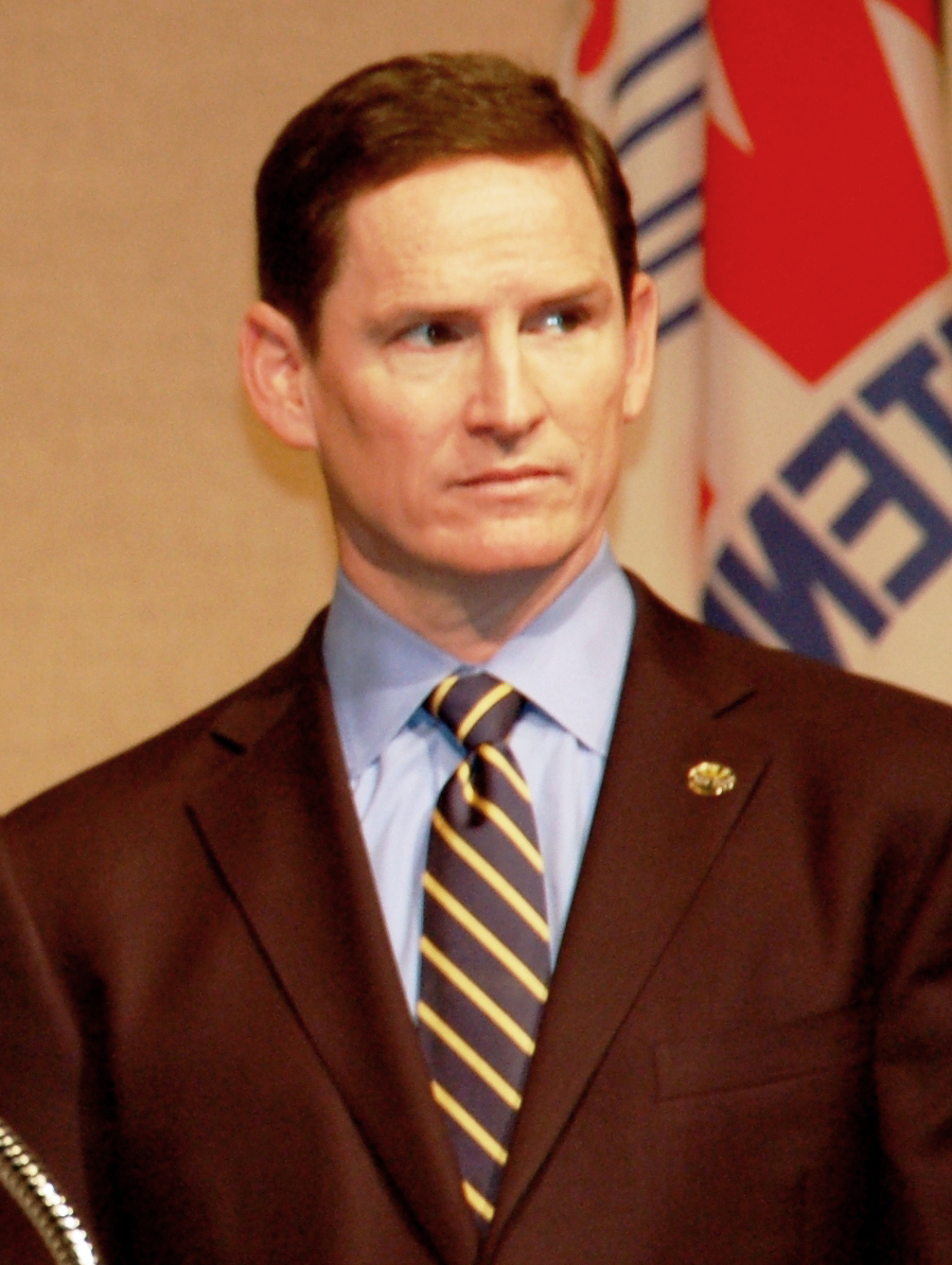 Dallas, TX, January 24, 2011 -- Dallas County Judge Clay Jenkins at a FEMA press conference in Dallas. FEMA/Jacqueline Chandler